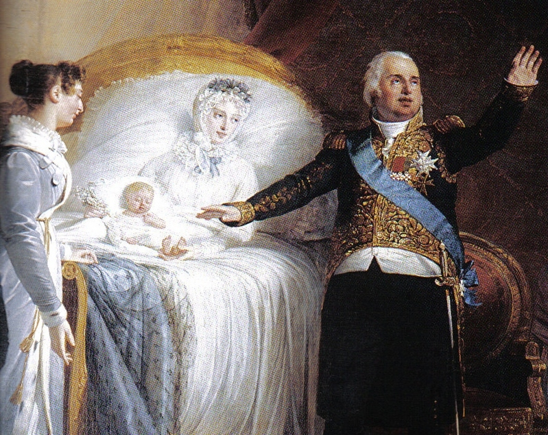 The birth of Henri duc de Bordeaux on 29th September 1820